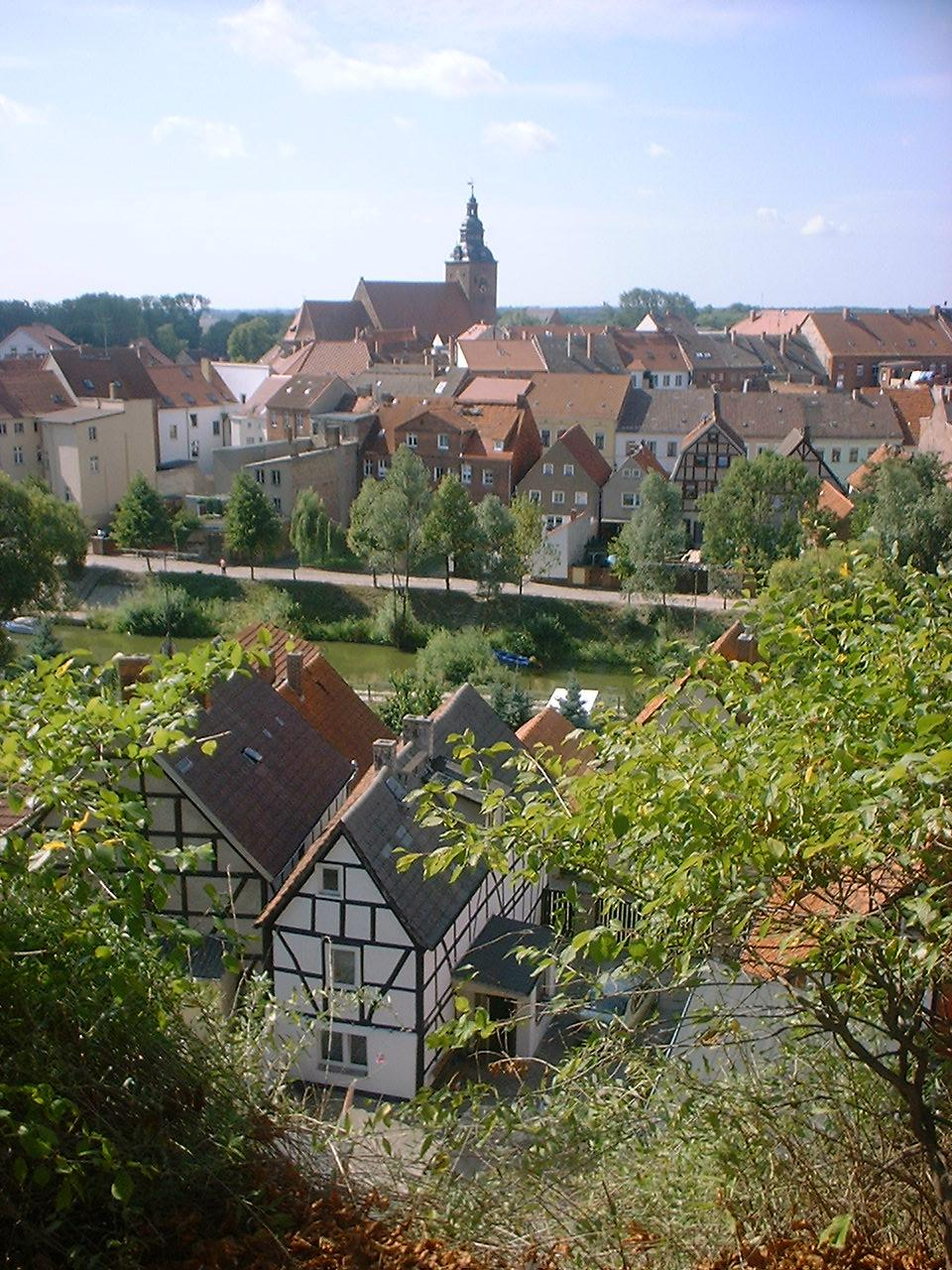 Havelberg in Saxony-Anhalt, Germany